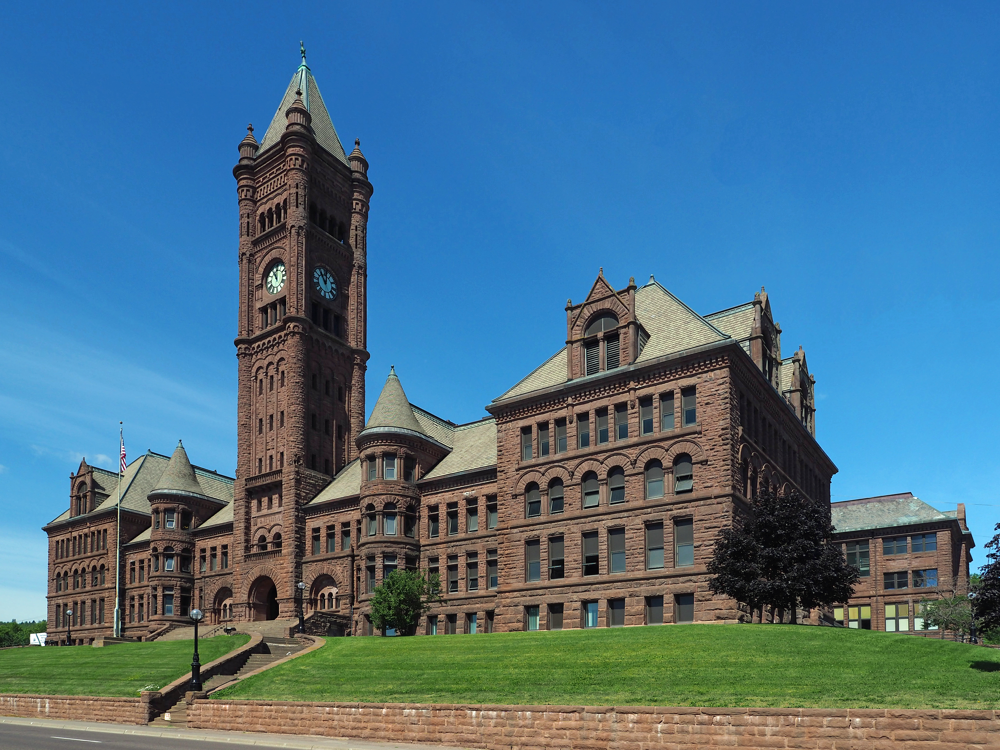 Old Duluth Central High School, 215 N 1st Ave E, Duluth, Minnesota, USA. Viewed from the east.